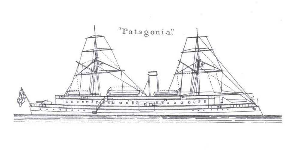 The small Argentinian cruiser Patagonia, from Brassey's Naval Annual 1888.